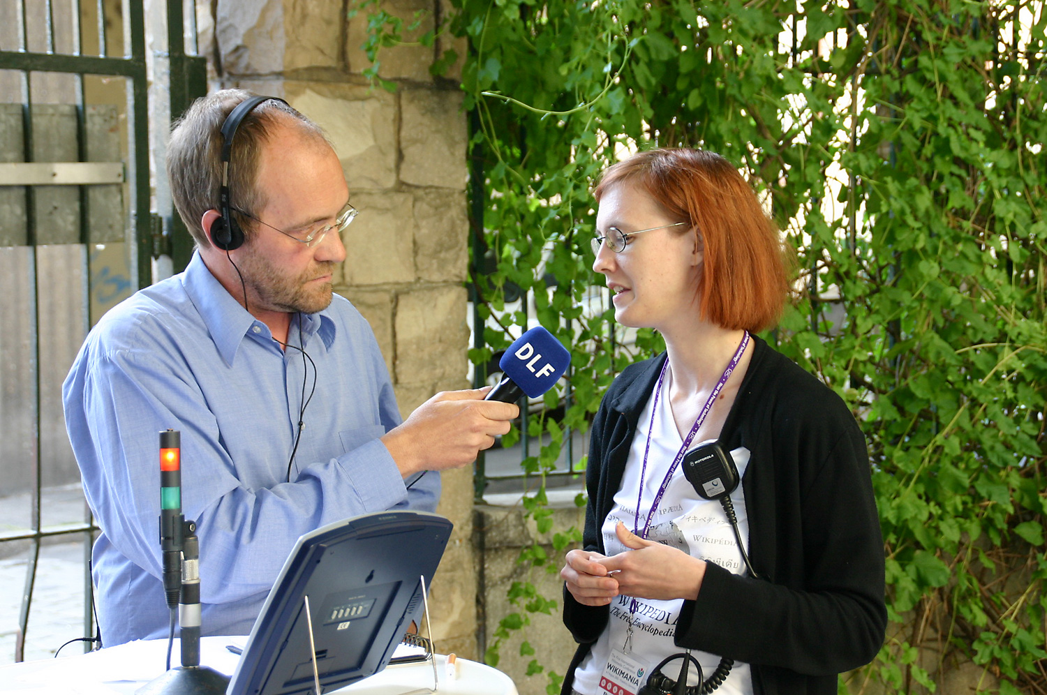 live interview of Achim Killer (Deutschlandfunk) at Wikimania 2005 with User:Elian